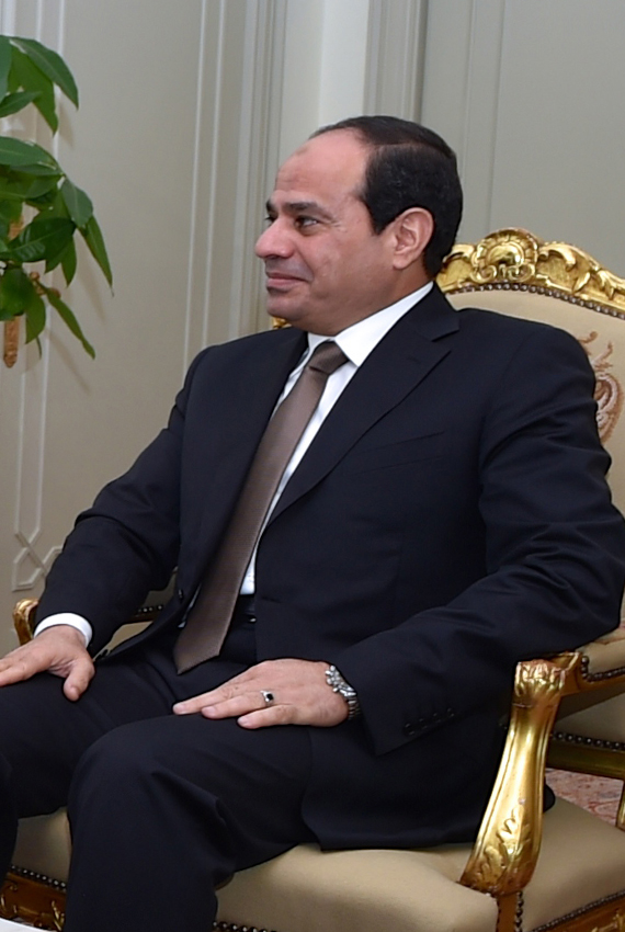 Photo of President Sisi during a meeting with Secretary of State John Kerry.